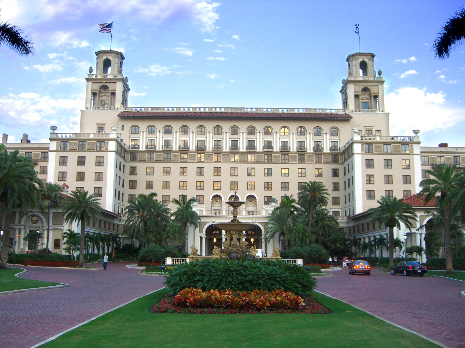 Photo by Nick Juhasz of the Breakers Hotel.